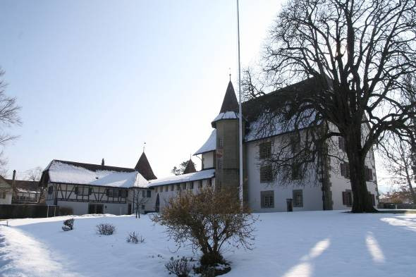 Schwarzenburg Castle seen from the northwest.